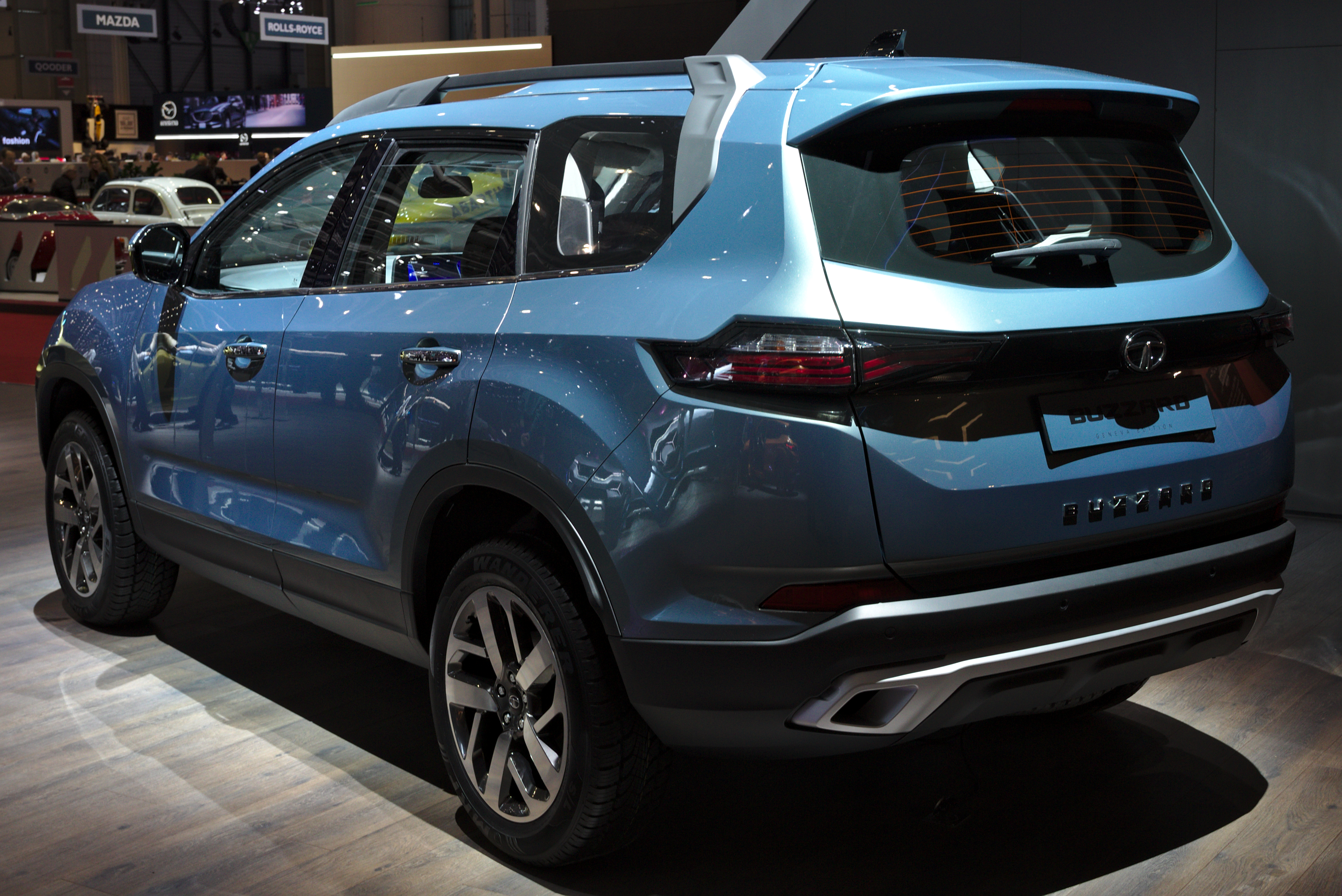 Tata Buzzard at Geneva Motor Show 2019